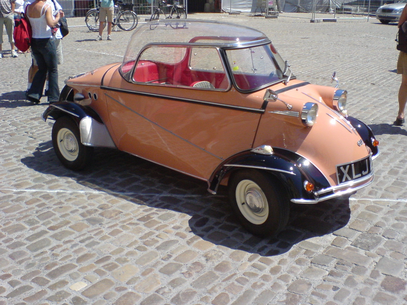 Messerschmitt Cabin Scooter Tg 500